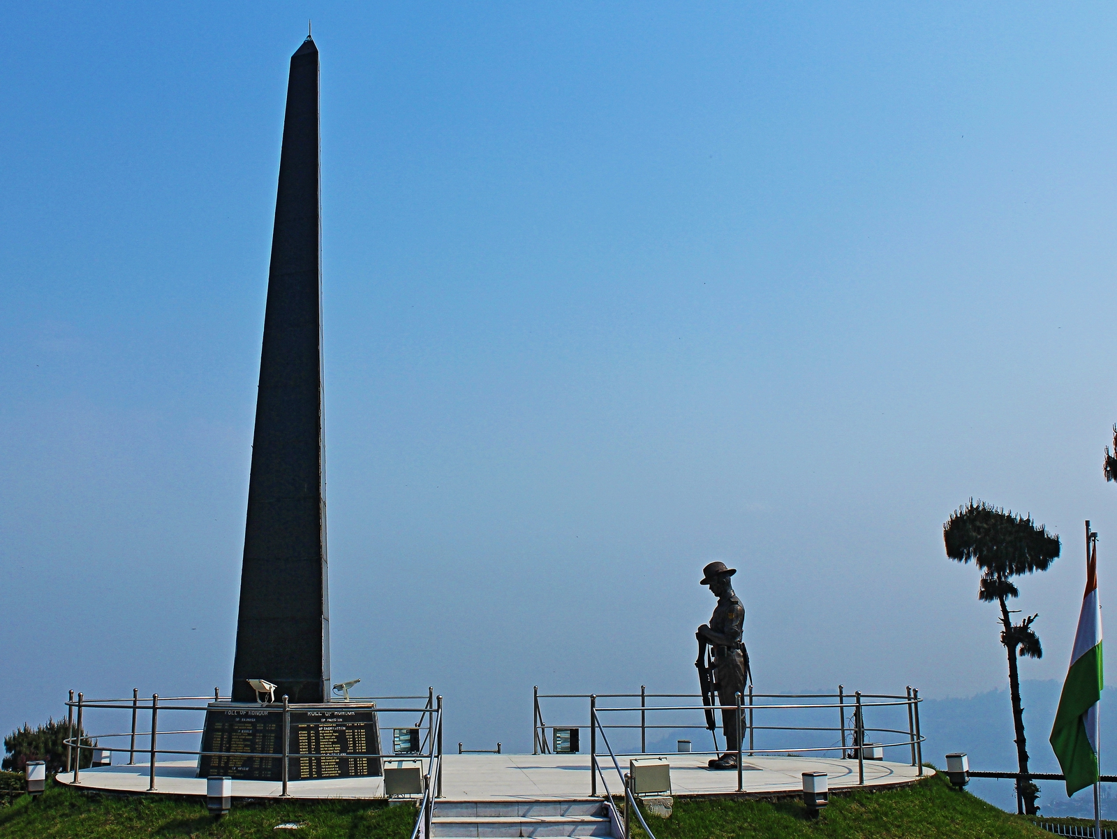 Batasia Loop War Memorial